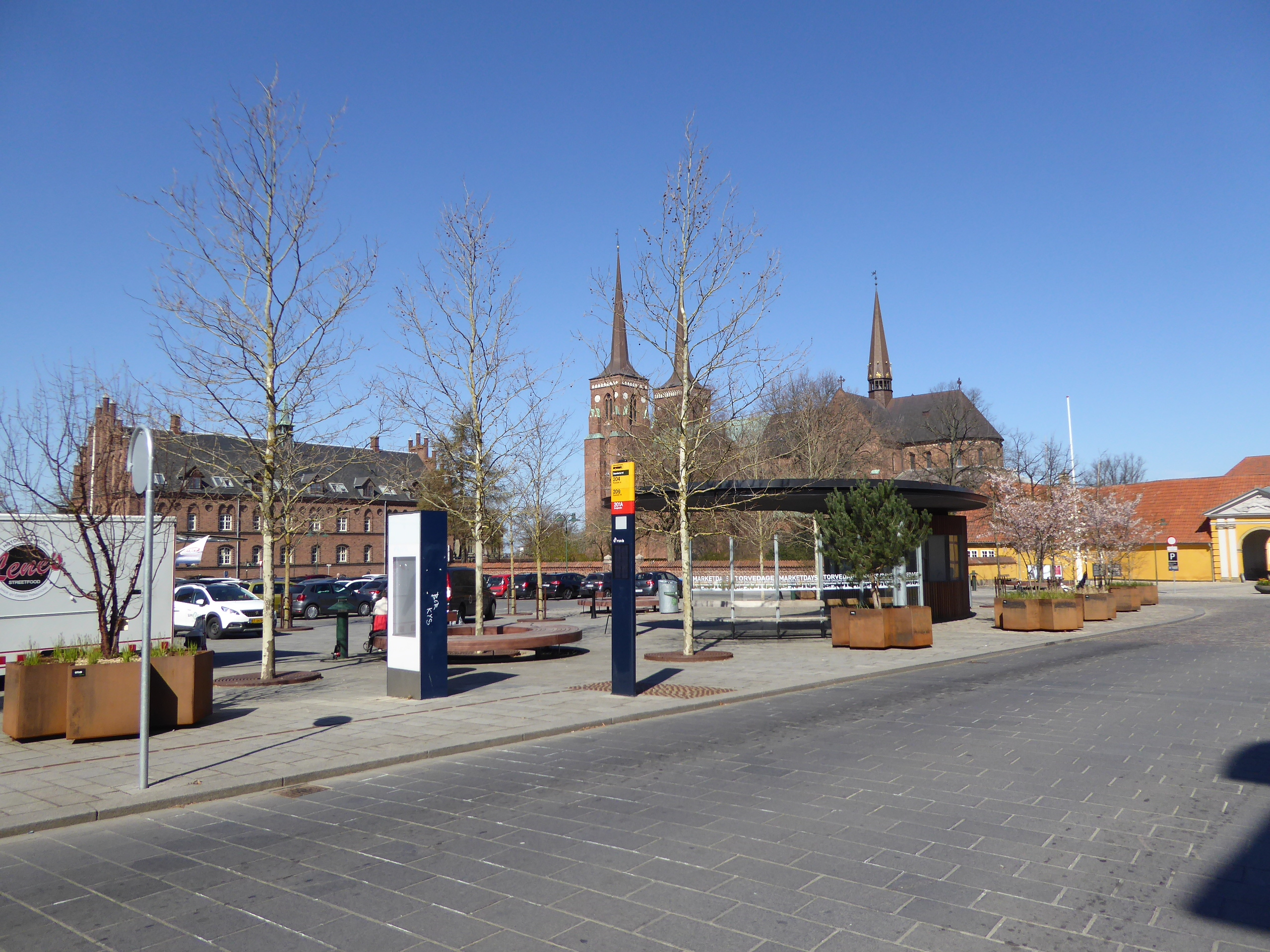 Bus stop at Stændertorvet in Roskilde in Denmark. In the background the Roskilde Cathedral can be seen.